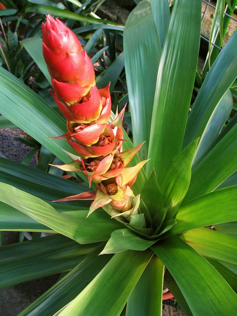 Mezobromelia capituligera in cultivation at the Botanical Garden of Heidelberg, Germany.